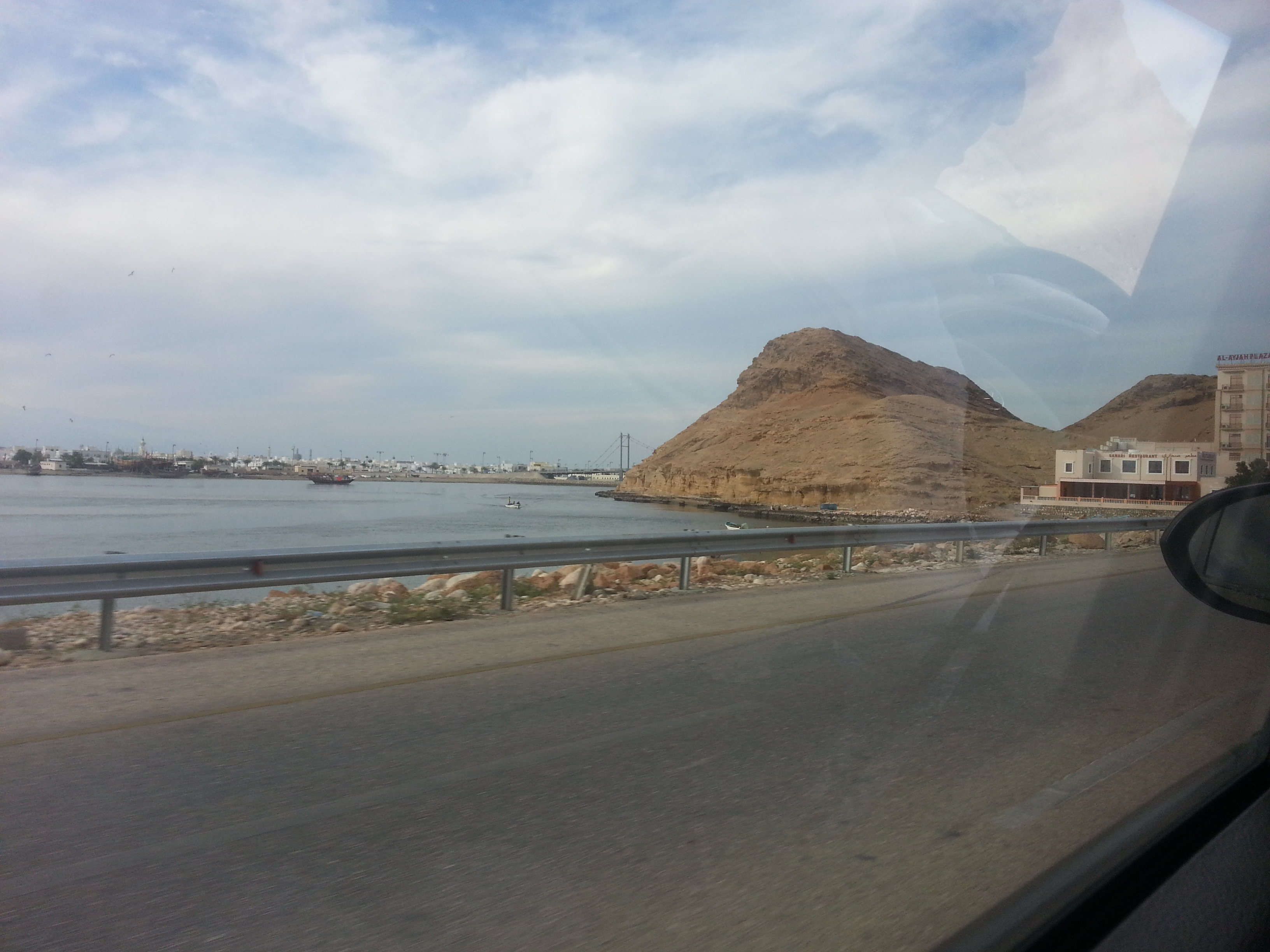 طريق معبد